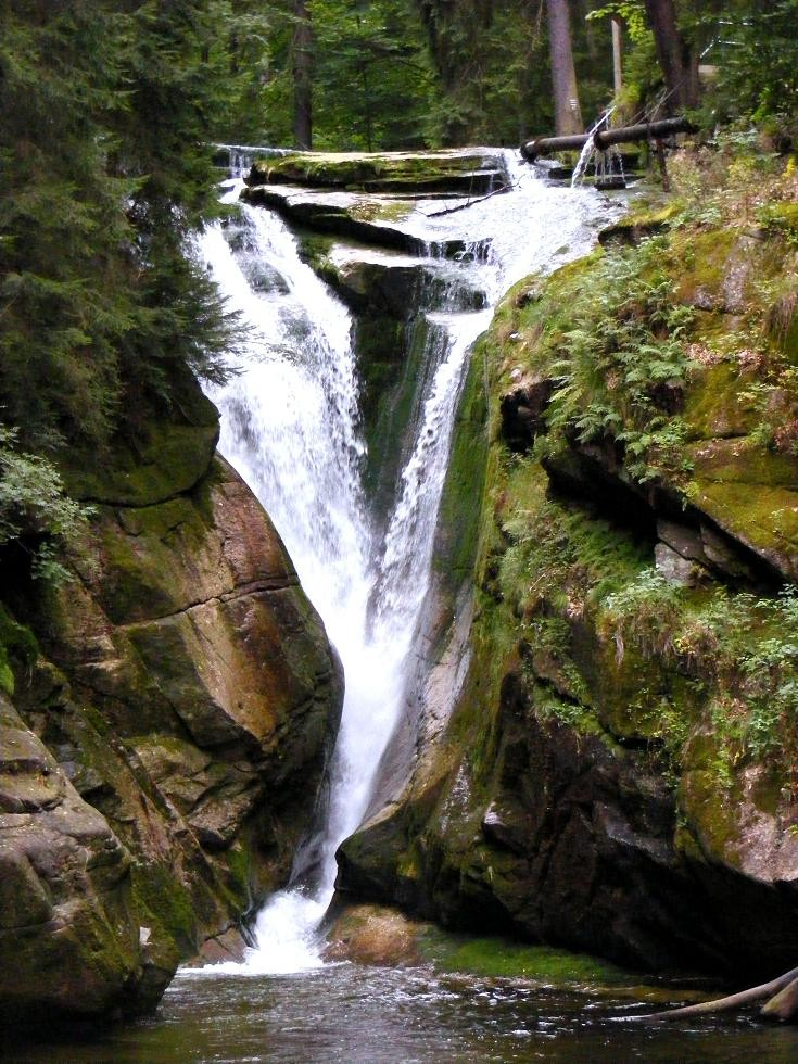 waterfall Szklarki